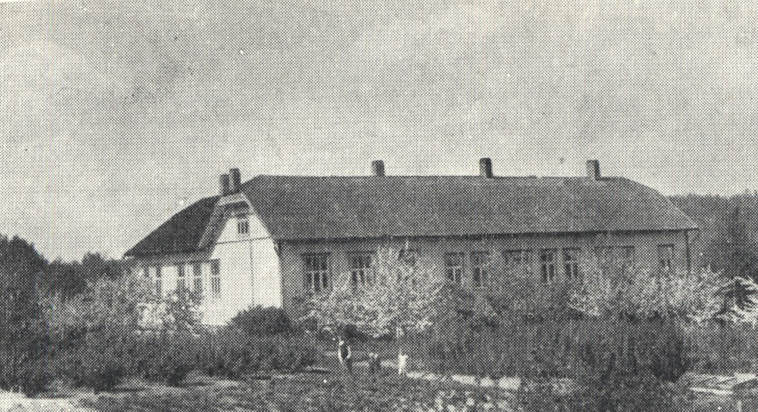 Kumolassa (Kumolan) village primary school, Lumivaara municipality